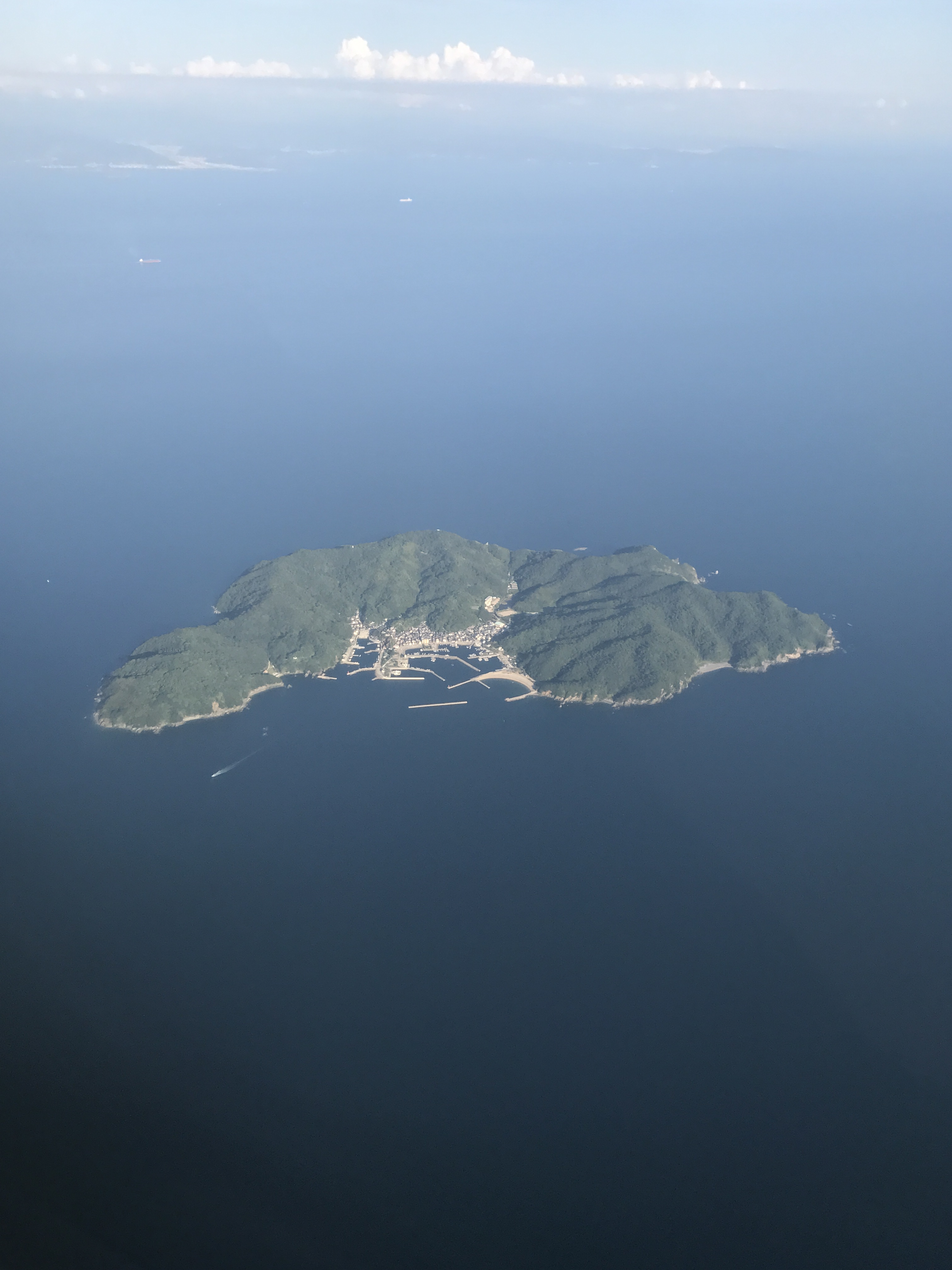 Nushima viewing from a commercial aircraft